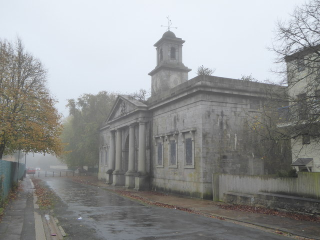 The main gateway to Raglan Barracks, Devonport